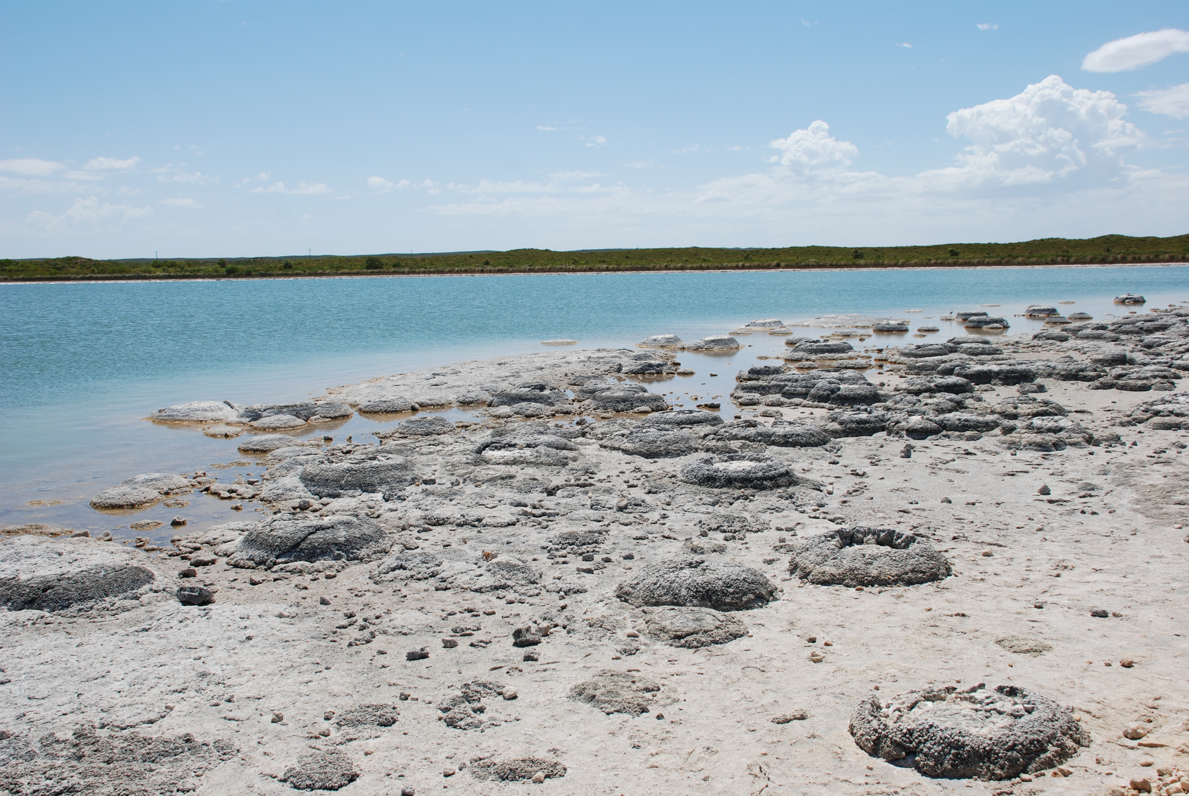 Stromatolites on the shore of Lake Thetis. December 2009